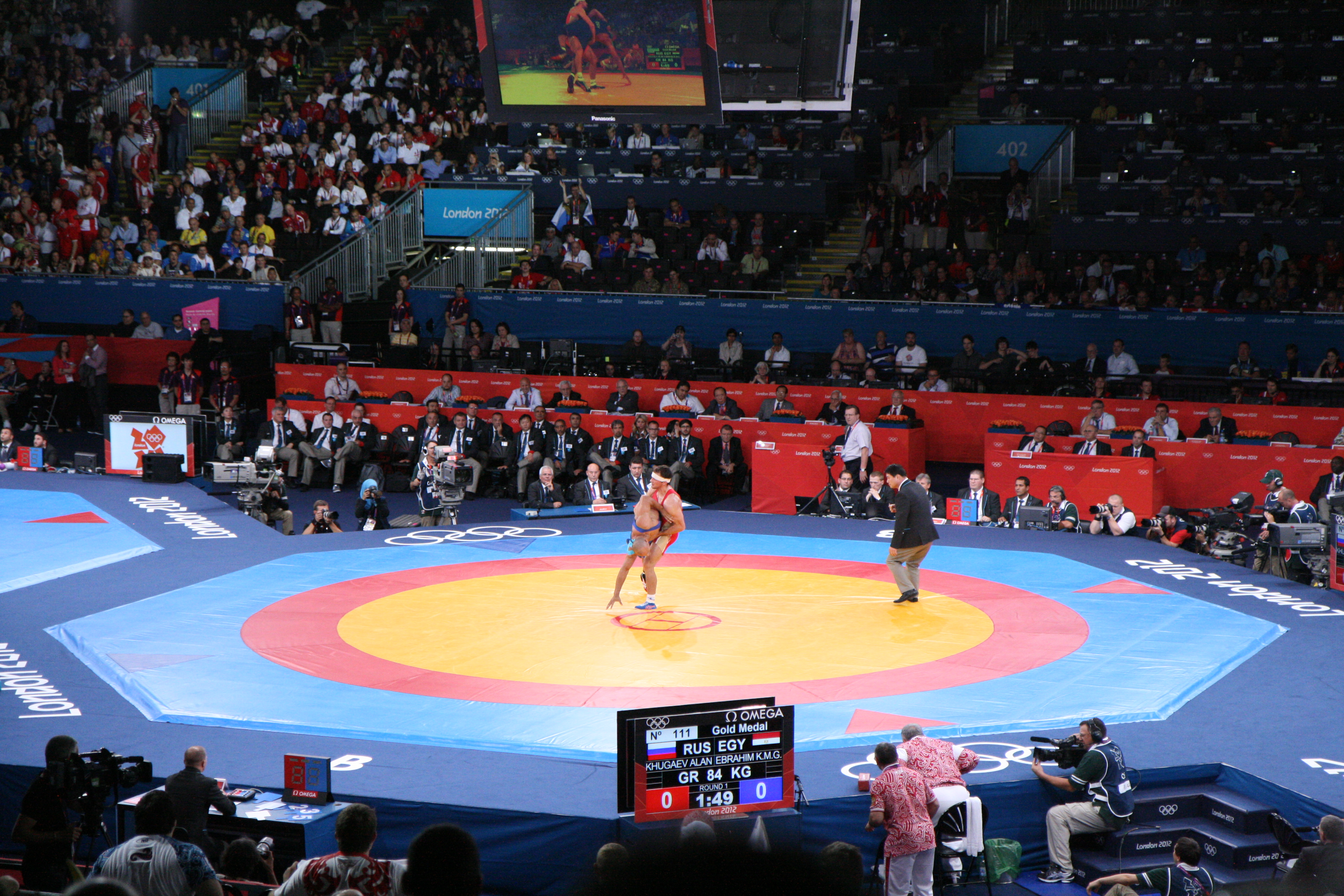 Wrestling at the 2012 Summer Olympics